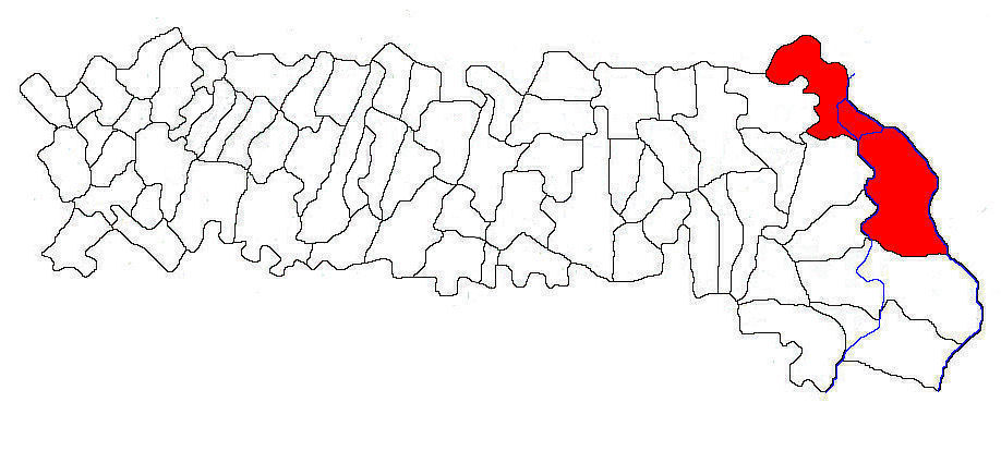 Limits of Giurgeni commune